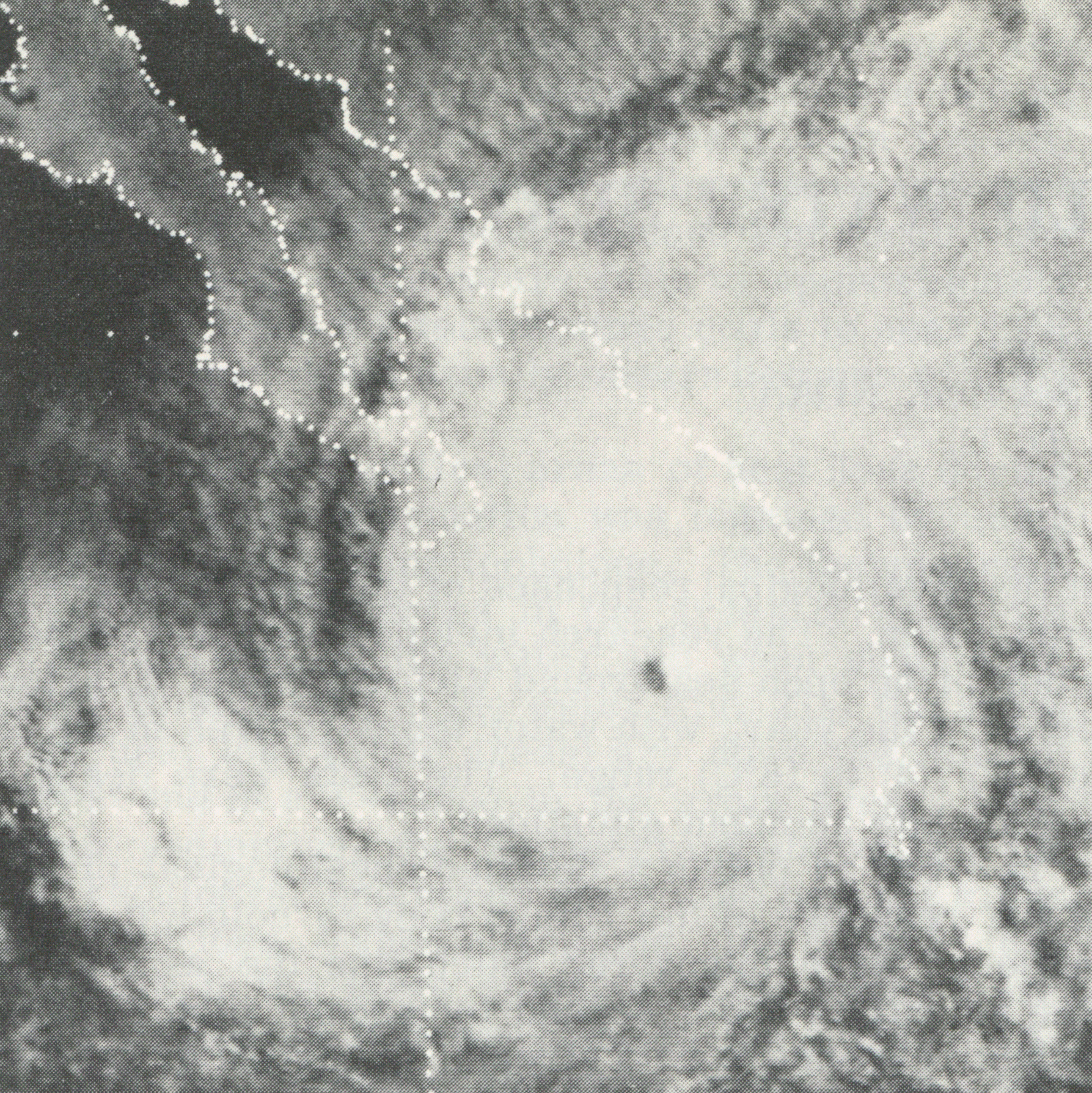 This SMS 2 satellite image of Hurricane Olivia was taken on October 24, 1975 at 2215 UTC